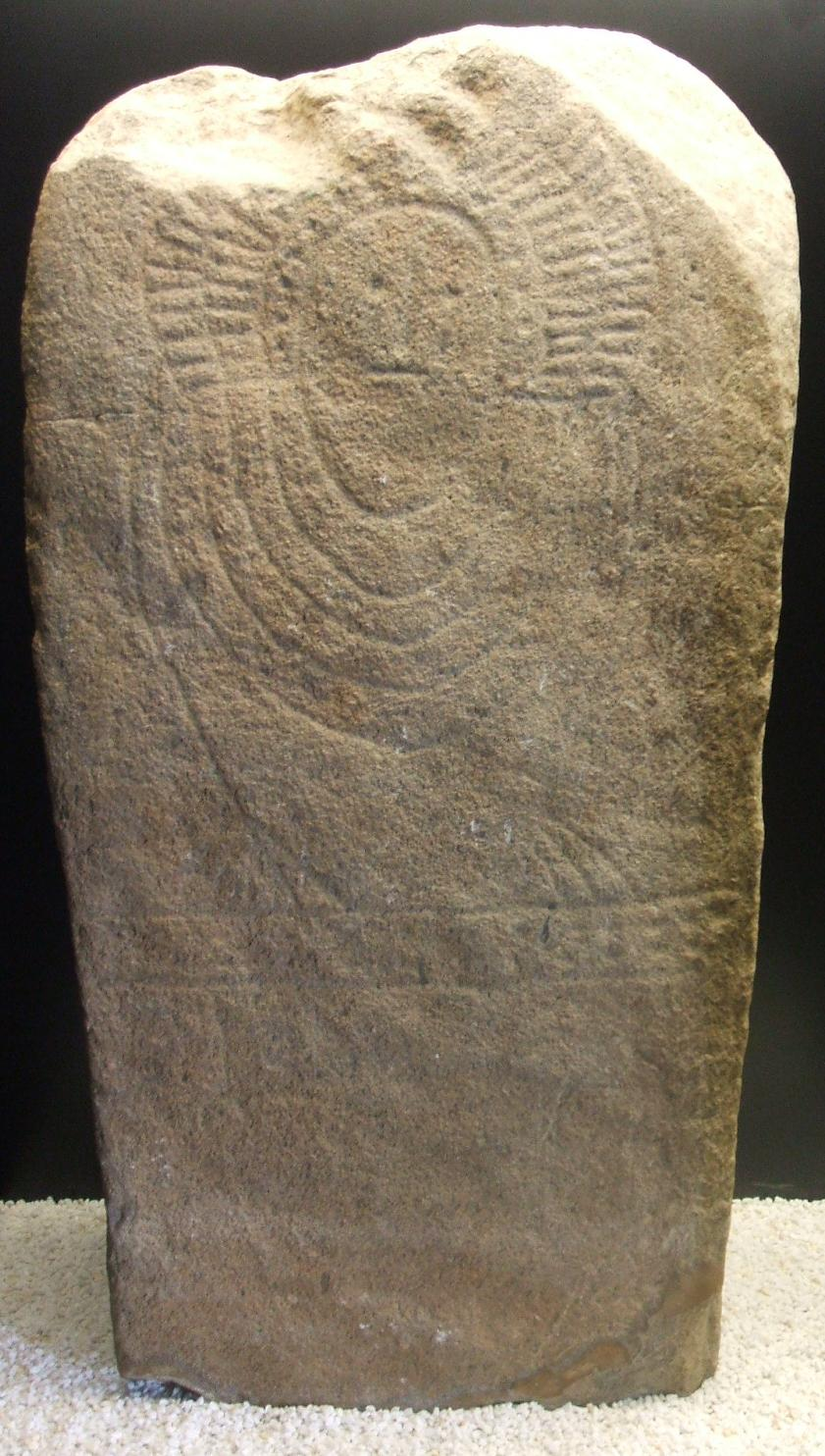 The so-called Stele of Granja de Toniñuelo. Granite. Found in Jerez de los Caballeros (Province of Badajoz, Extremadura, Spain). Dated in the 3rd millennium BC (Early Bronze Age).